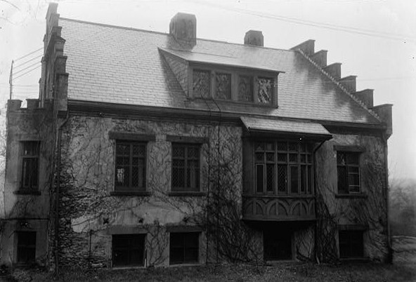 Rehoboth, Chappaqua (Westchester County, New York) cropped This file comes from the Historic American Buildings Survey (HABS), Historic American Engineering Record (HAER) or Historic American Landscapes Survey (HALS). These are programs of the National Park Service established for the purpose of documenting historic places. Records consist of measured drawings, archival photographs, and written reports. When reusing please credit: Library of Congress, Prints & Photographs Division, NY,60-CHAP,1-2 This tag does not indicate the copyright status of the attached work. A normal copyright tag is still required. See Commons:Licensing for more information. This work is in the public domain in the United States because it is a work prepared by an officer or employee of the United States Government as part of that person’s official duties under the terms of Title 17, Chapter 1, Section 105 of the US Code. See Copyright. Note: This only applies to original works of the Federal Government and not to the work of any individual U.S. state, territory, commonwealth, county, municipality, or any other subdivision. This template also does not apply to postage stamp designs published by the United States Postal Service since 1978. (See § 313.6(C)(1) of Compendium of U.S. Copyright Office Practices). It also does not apply to certain US coins; see The US Mint Terms of Use. This file has been identified as being free of known restrictions under copyright law, including all related and neighboring rights. Object location41° 09′ 22″ N, 73° 46′ 10″ W